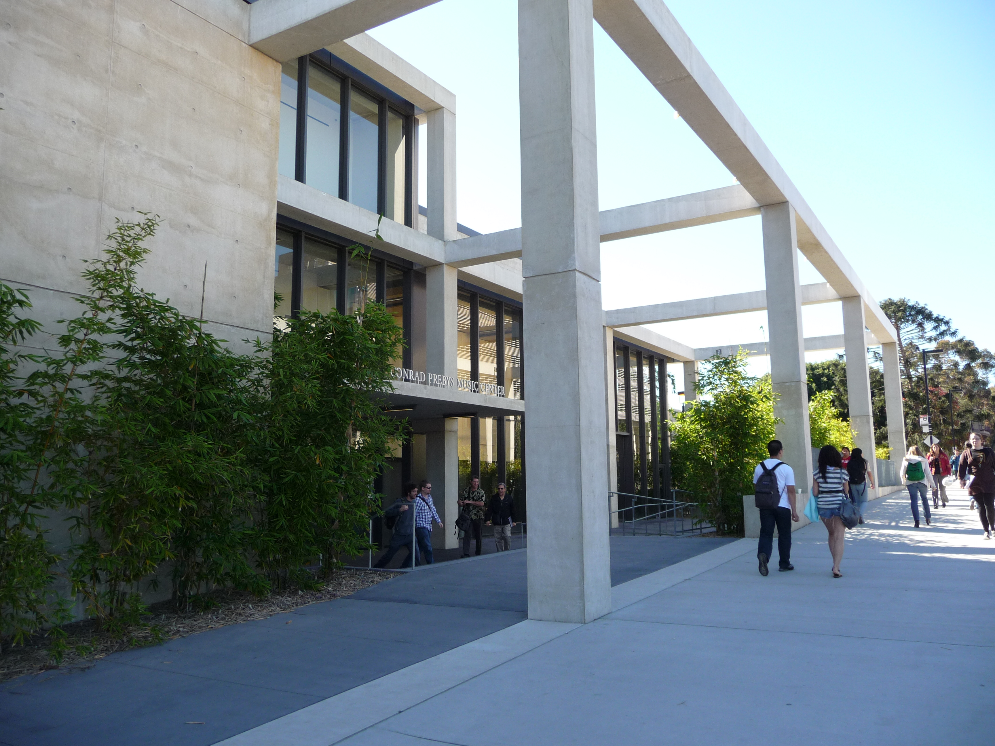 Conrad Prebys Music Center in University Center (near Sixth College) at UCSD.